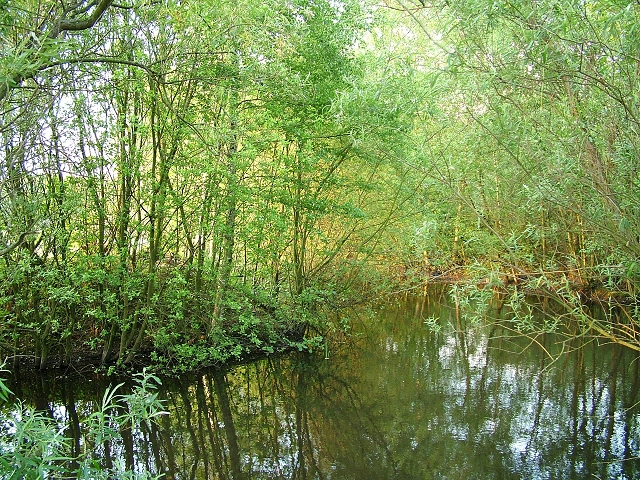 Area surrounding the Broad Ees Dole mud flats. --- Eric 21:26, 21 May 2007 (UTC)